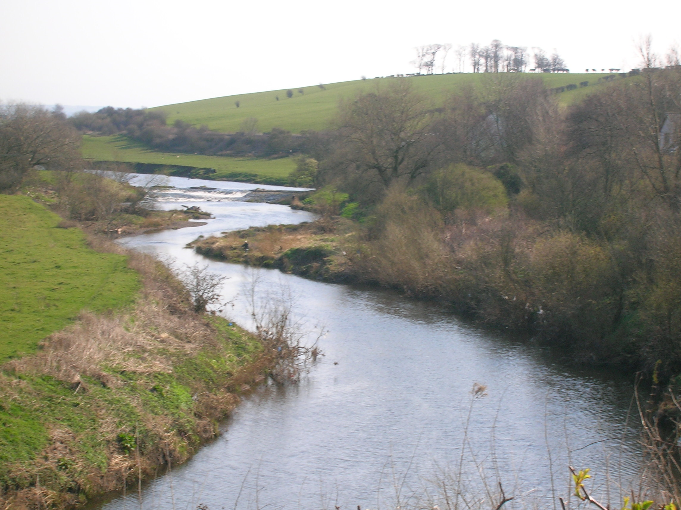 The River Irvine at Drybridge near Dundonald, North Ayrshire, Scotland, 2007. The weir is that of the old Girtrig Mill.